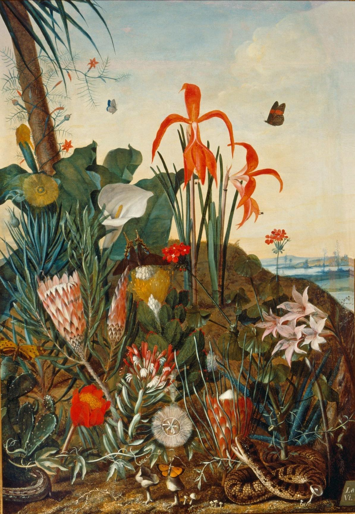 Exotic flowers with a snake in the Hortus Botanicus Leiden, c.1750, signature in the lower right hand corner "Lau/Vi."